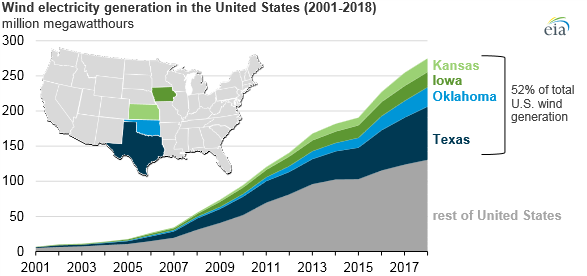 In the United States, producers generated 275 million megawatthours (MWh) of electricity from wind power in 2018. Of that, more than half came from just four states: Texas, Oklahoma, Iowa, and Kansas. June 7, 2019